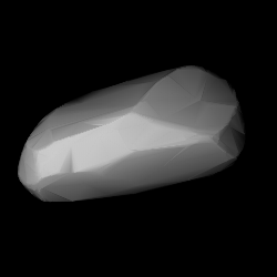 3D convex shape model of 1333 Cevenola, computed using light curve inversion techniques. J. Hanuš, J. Ďurech, M. Brož, B. D. Warner (June 2011). "A study of asteroid pole-latitude distribution based on an extended set of shape models derived by the lightcurve inversion method". Astronomy and Astrophysics 530: A134. ISSN 0004-6361. arXiv